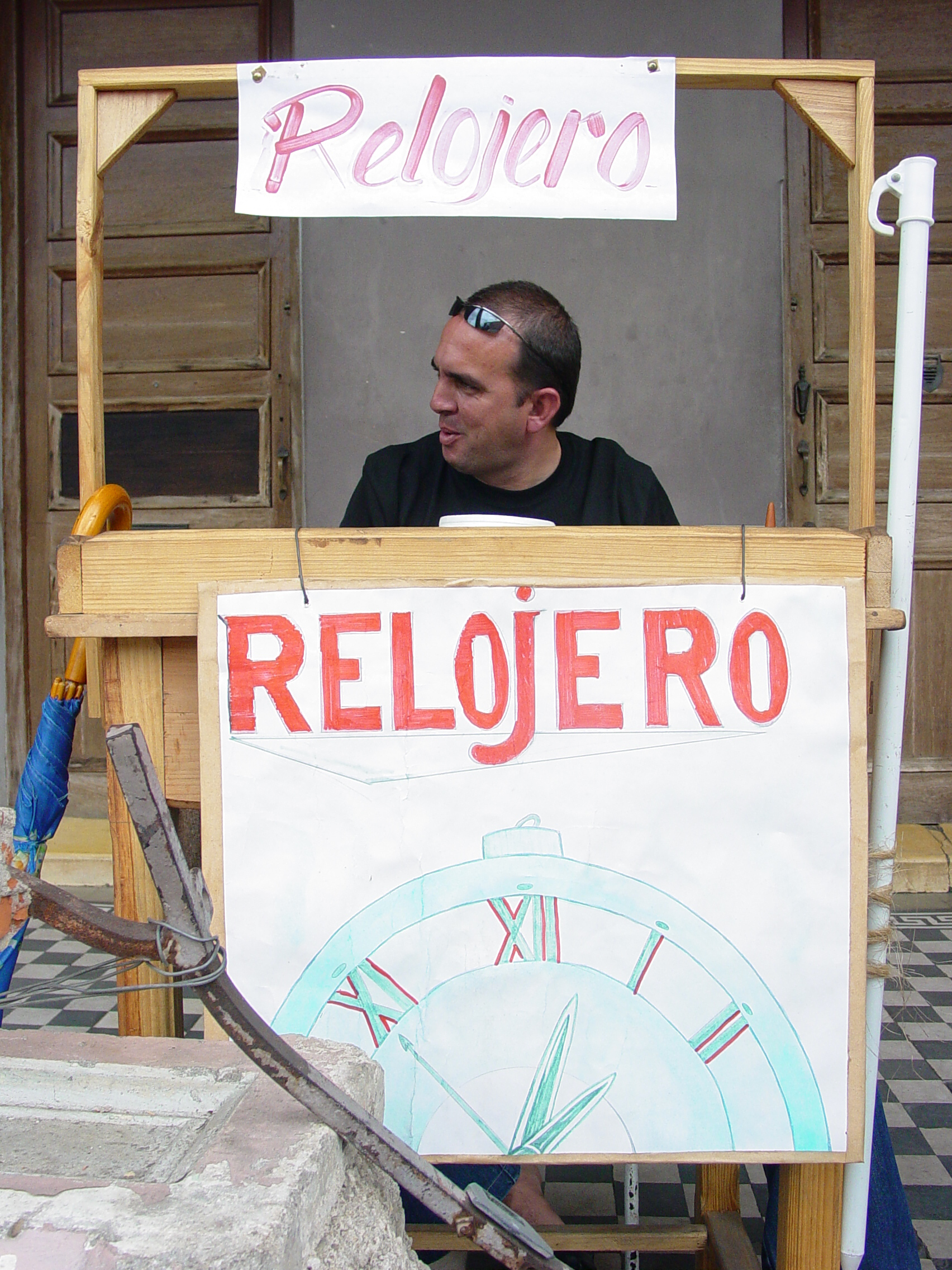 Relojero (watch repairman) in Centro Habana, Havana, Cuba. December 2006.